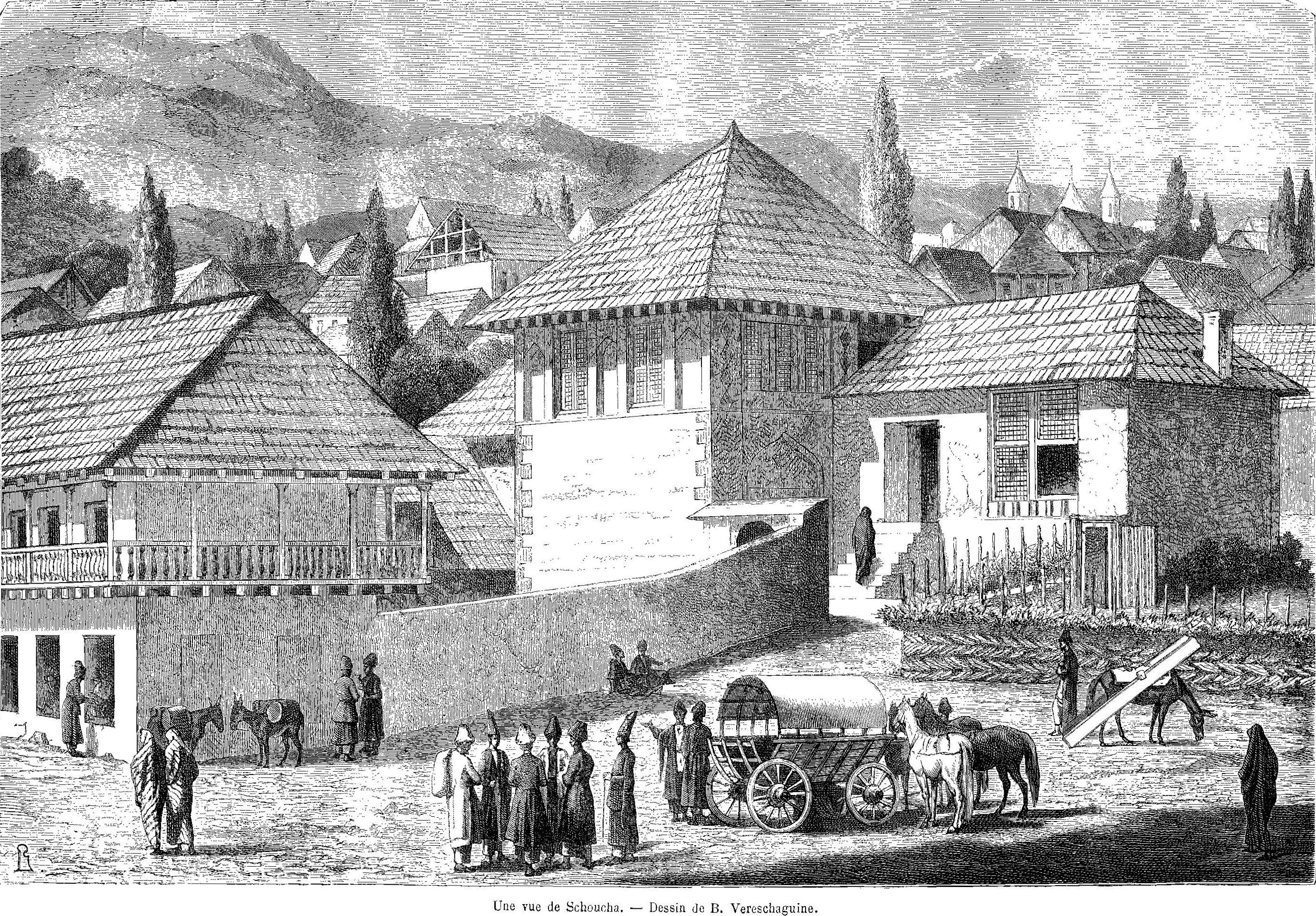 View of Shusha.